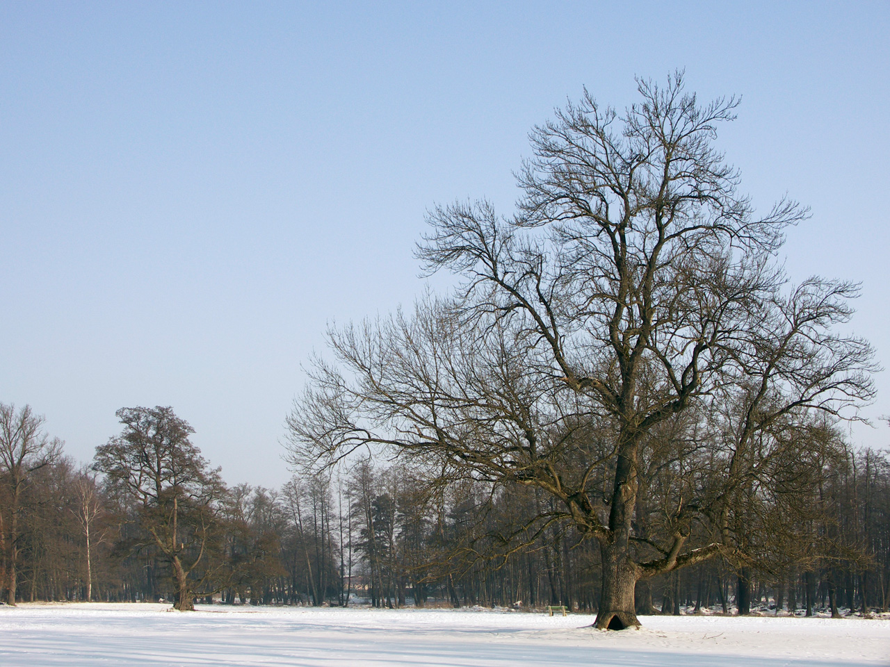 Park in winter in Blatná (CZE)